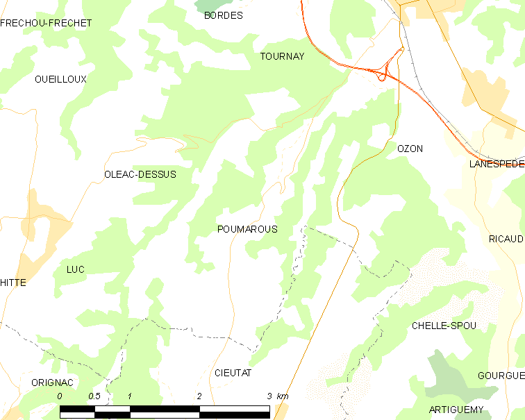 Map of French municipality